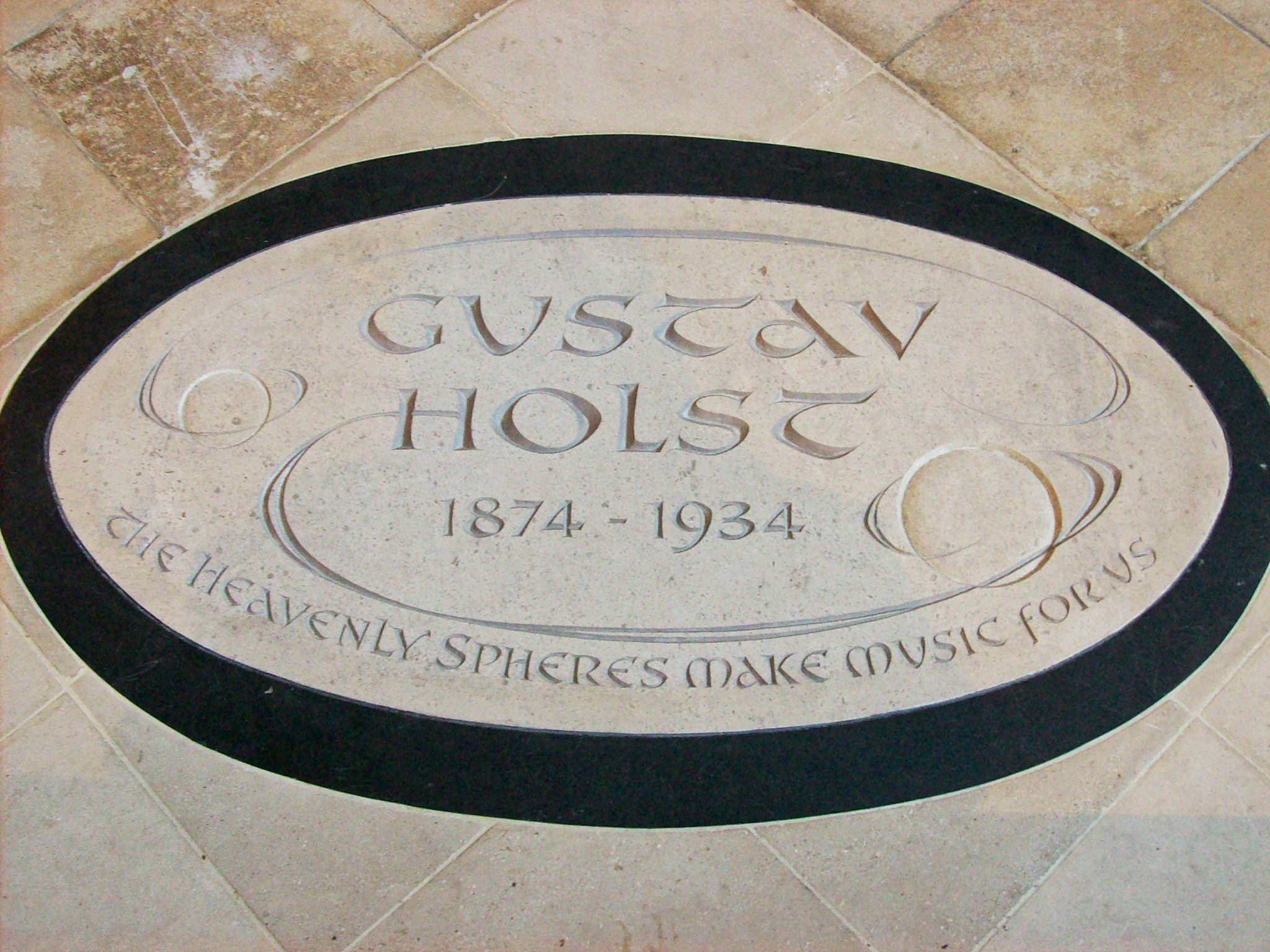 Holst memorial, Chichester Cathedral